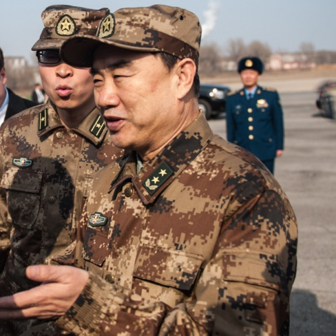 U.S. Army Chief of Staff, Gen. Ray Odierno is greeted by Deputy Commander Shenyang Military Region, Lt. Gen Hou Jizhen, Feb. 22, 2014, Shenyang, China. Odierno was meeting with Chinese commanders to strengthen and promote military to military relations during his visit. (U.S. army Photo by Sgt. Mikki L. Sprenkle/Released)